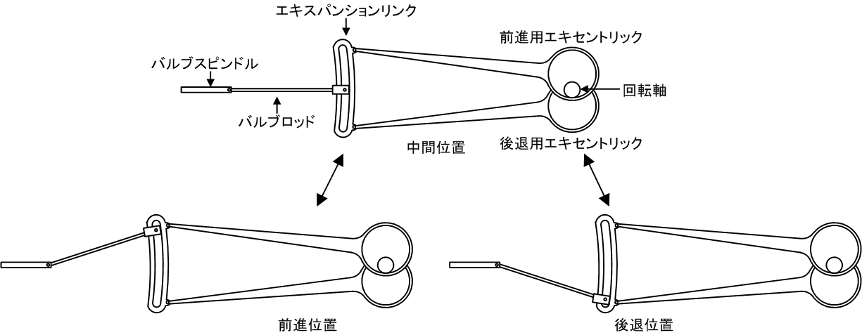 A figure used for explanation of Gooch valvegear, with Japanese comment